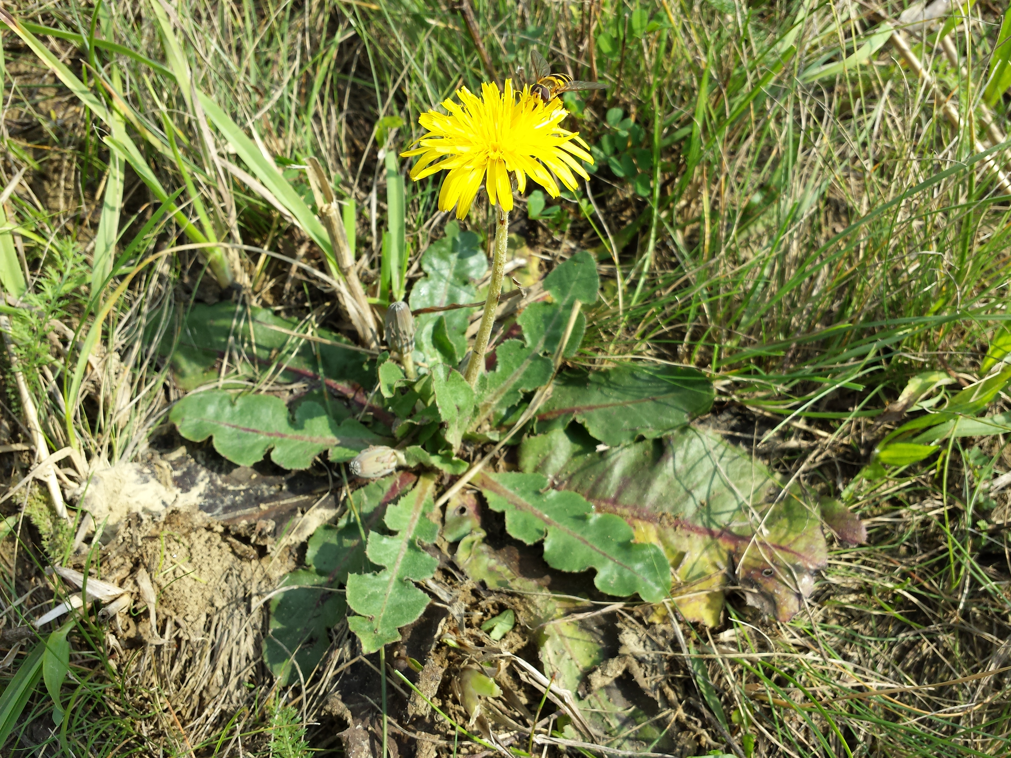 Habitus Taxon: Taraxacum serotinum (sensu Fischer et al. EfÖLS 2008 ISBN 978-3-85474-187-9) Location: Natural monument Blauer Berg near Oberschoderlee, district Mistelbach, Lower Austria - ca. 280 m a.s.l. Habitat: dirt road